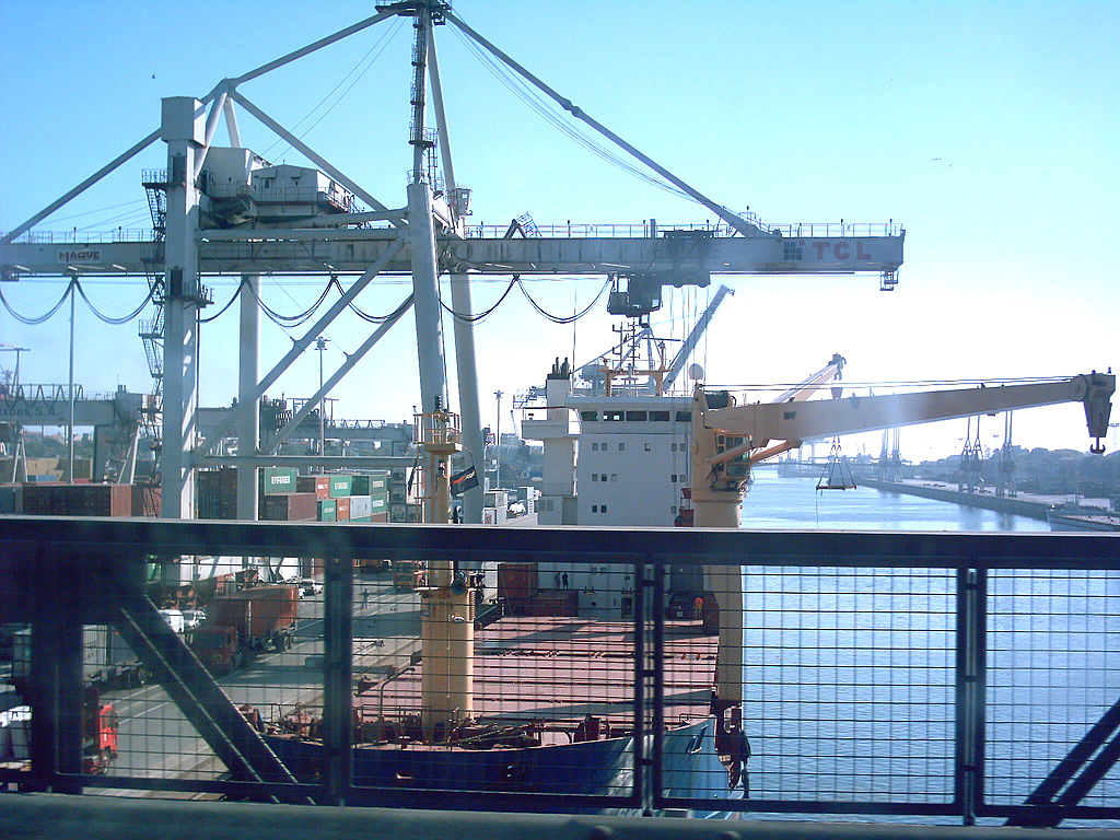 quick flash in the bridge traffic..